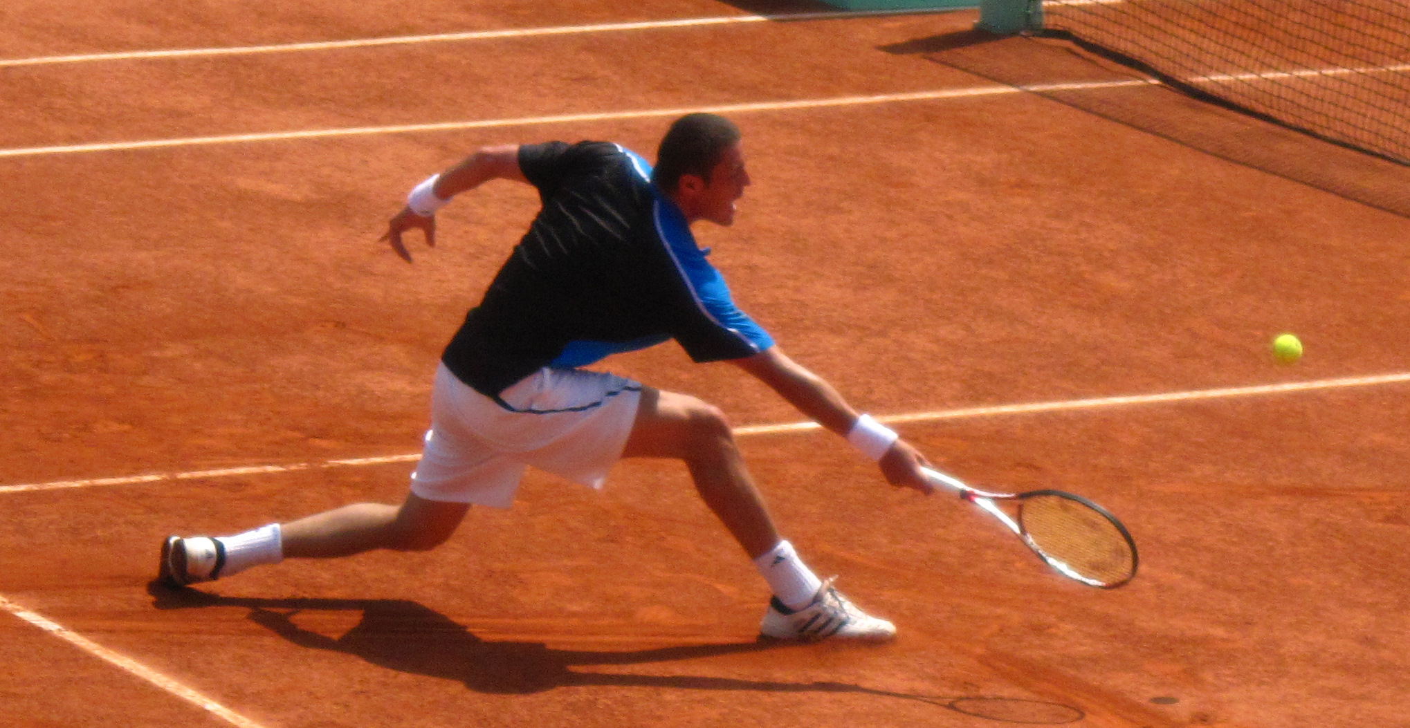 Marat Safin at 2009 Roland Garros, Paris, France